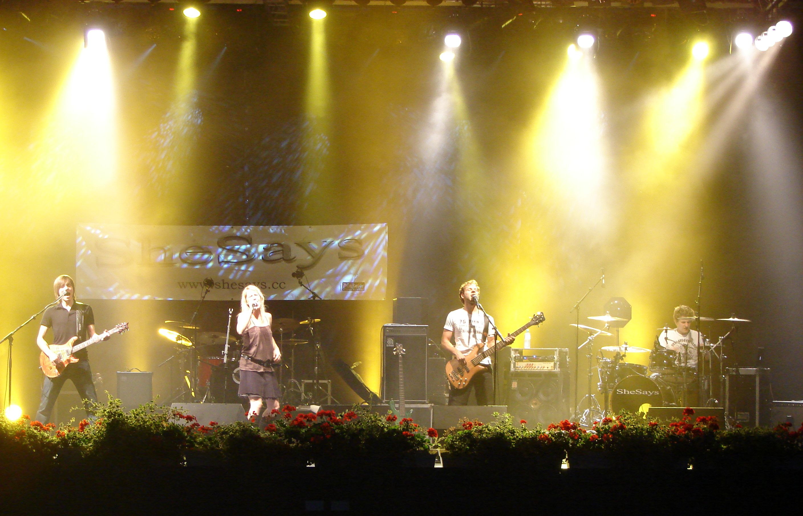 Austrian rock band SheSays during a concert in Tulln on August 25, 2007.